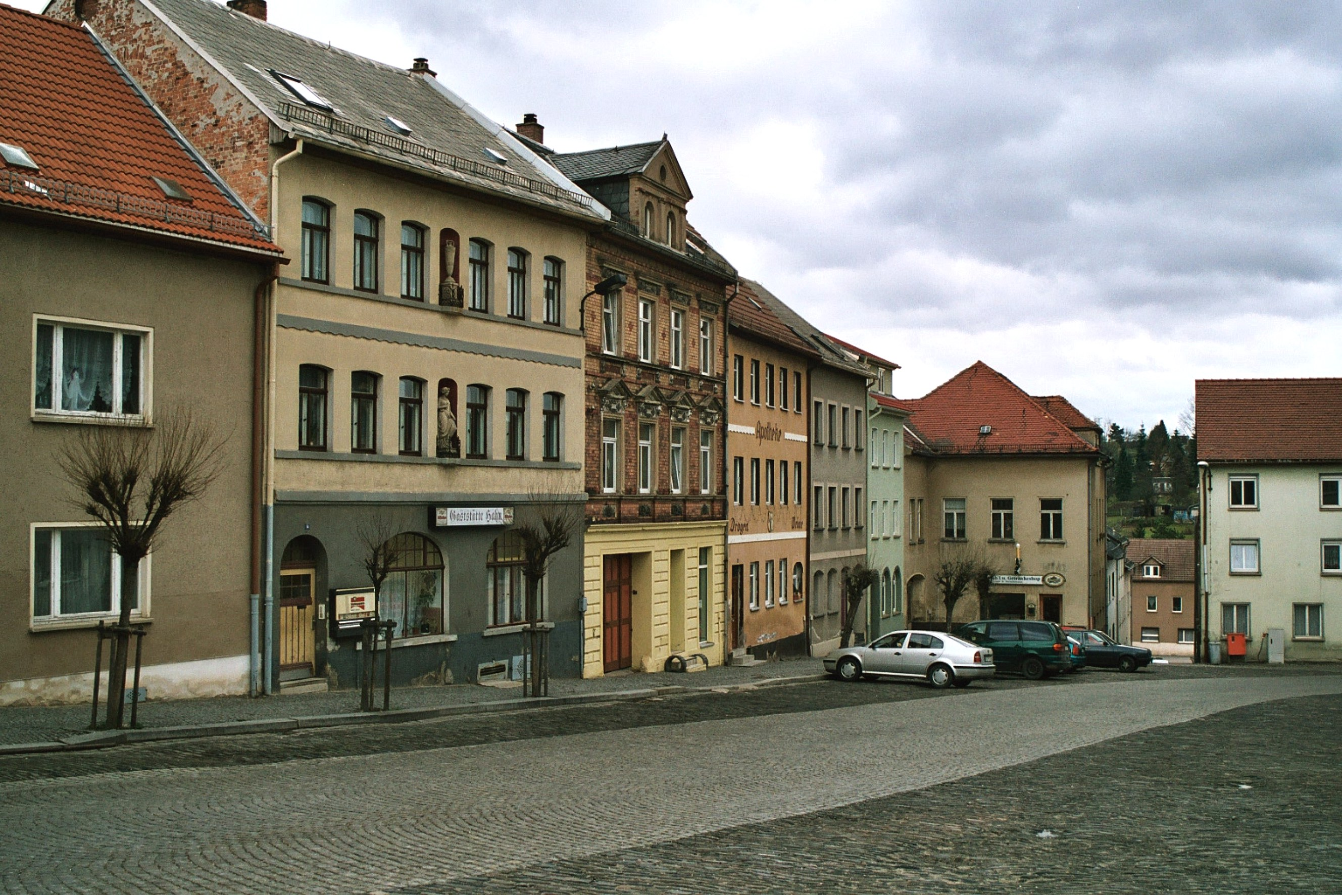 Münchenbernsdorf, the town square